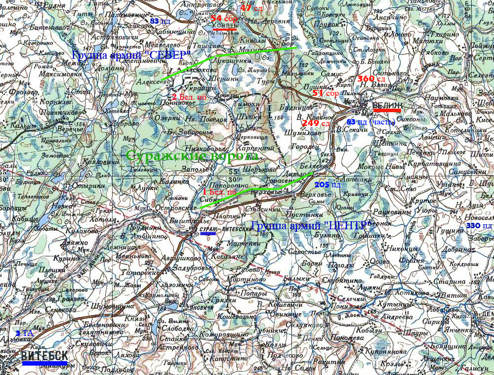 Vitebsk (Surazh) gate's plan with German and Soviet main forces positions during February 1942. Made on the Soviet HQ pre-war map dated 1936.